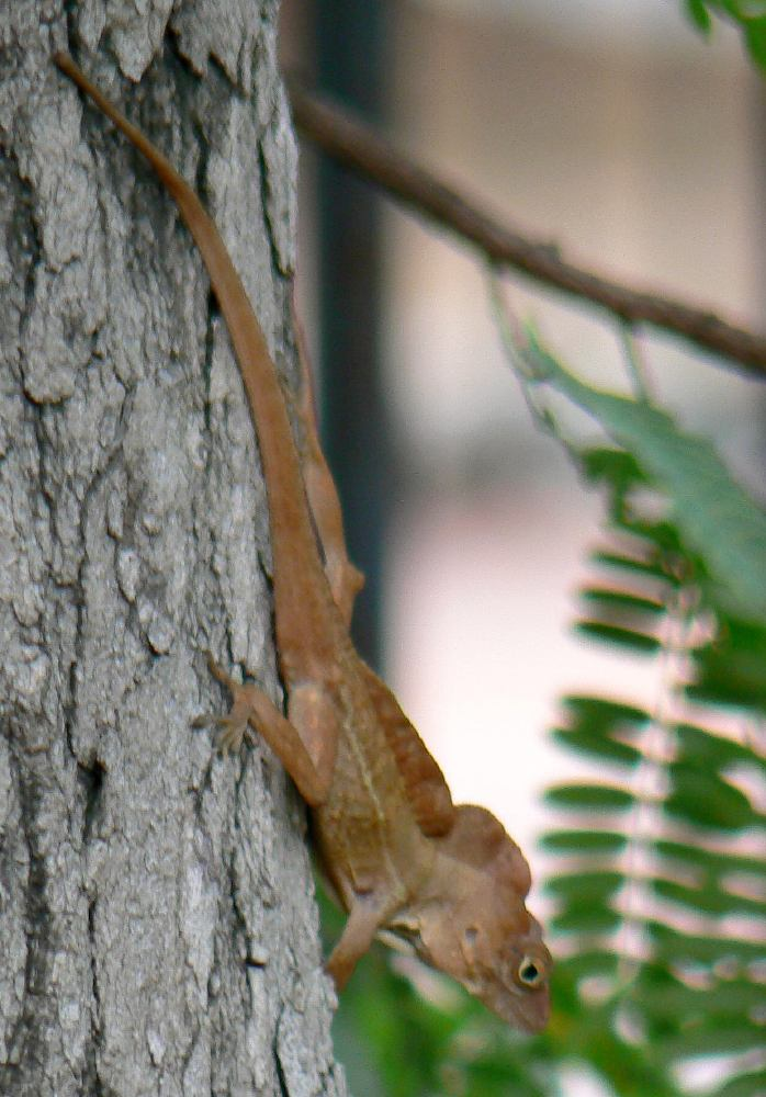 Hispaniolan Stout Anole (Anolis cybotes) in garden in Santo Domingo, Dominican Republic.